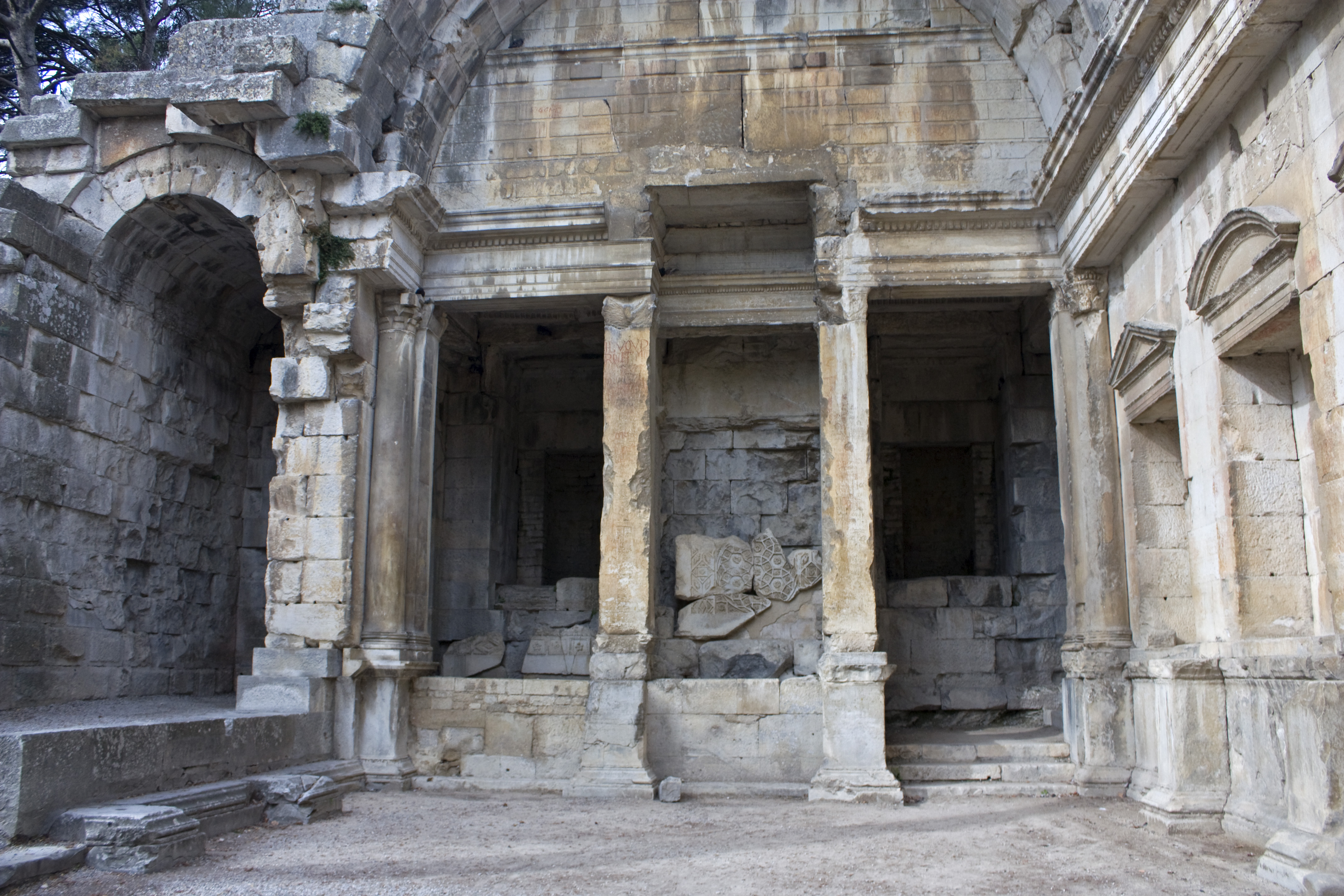 The main hall of the Temple of Diana. The left ark materializes the ambulatory which is still behind the right wall.